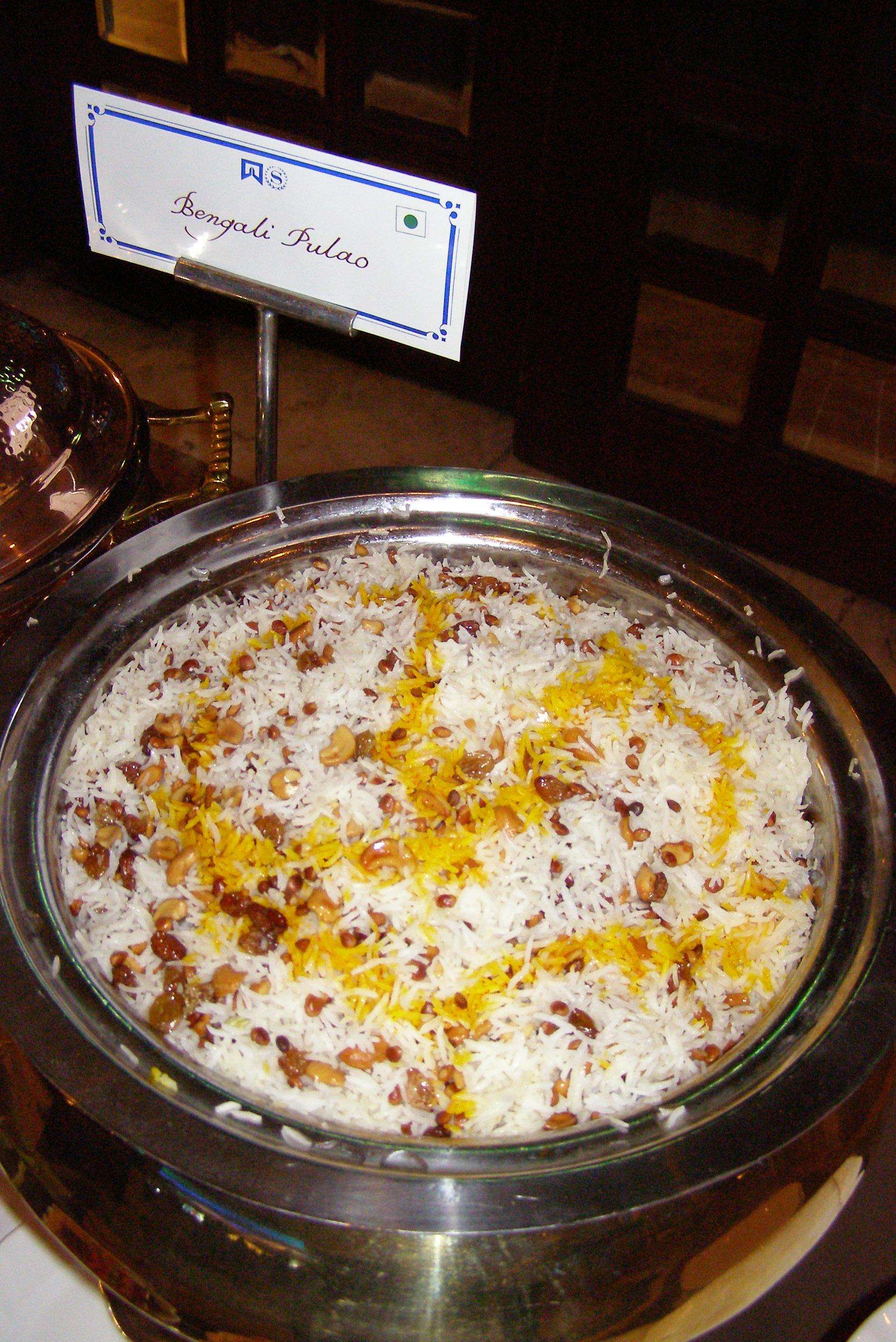 Bengali Pulao, South Asian, East Indian Cuisine, Vegetarian, New Delhi Sheraton Hotel Ballroom, 05 May 2007